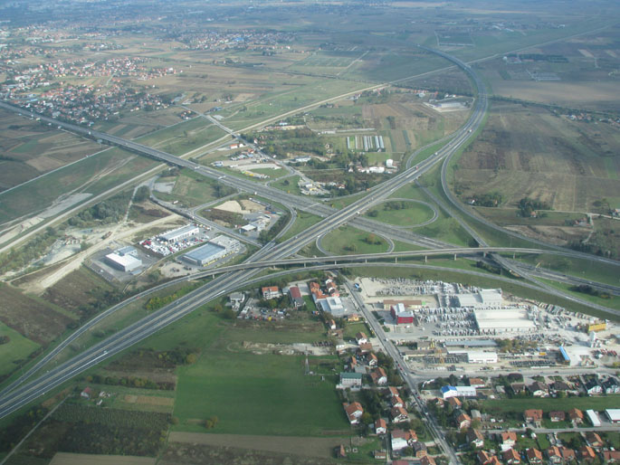 Lučko interchange, near Zagreb, CroatiaHrvatski: Čvor Lučko